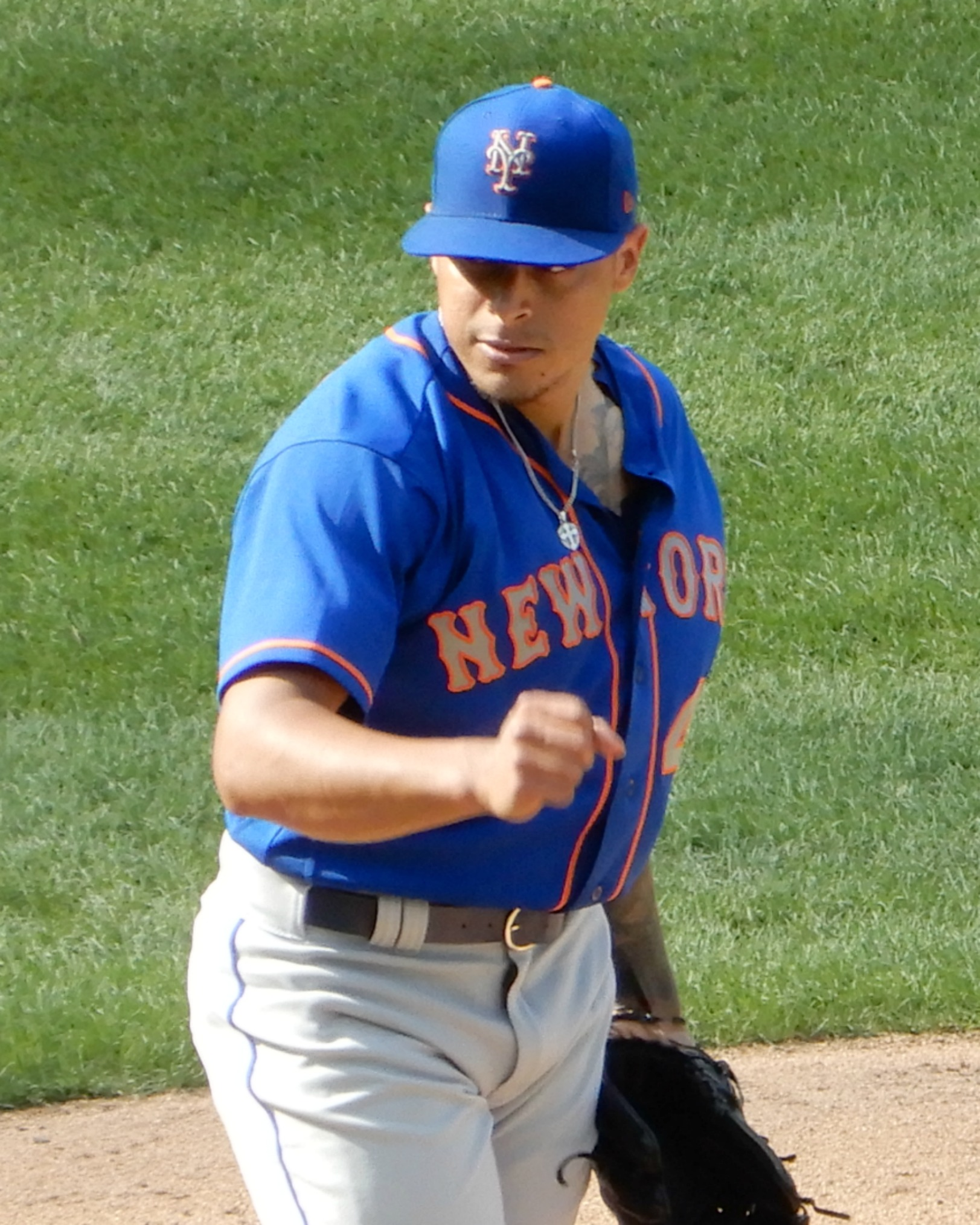 A. J. Ramos on August 13, 2017